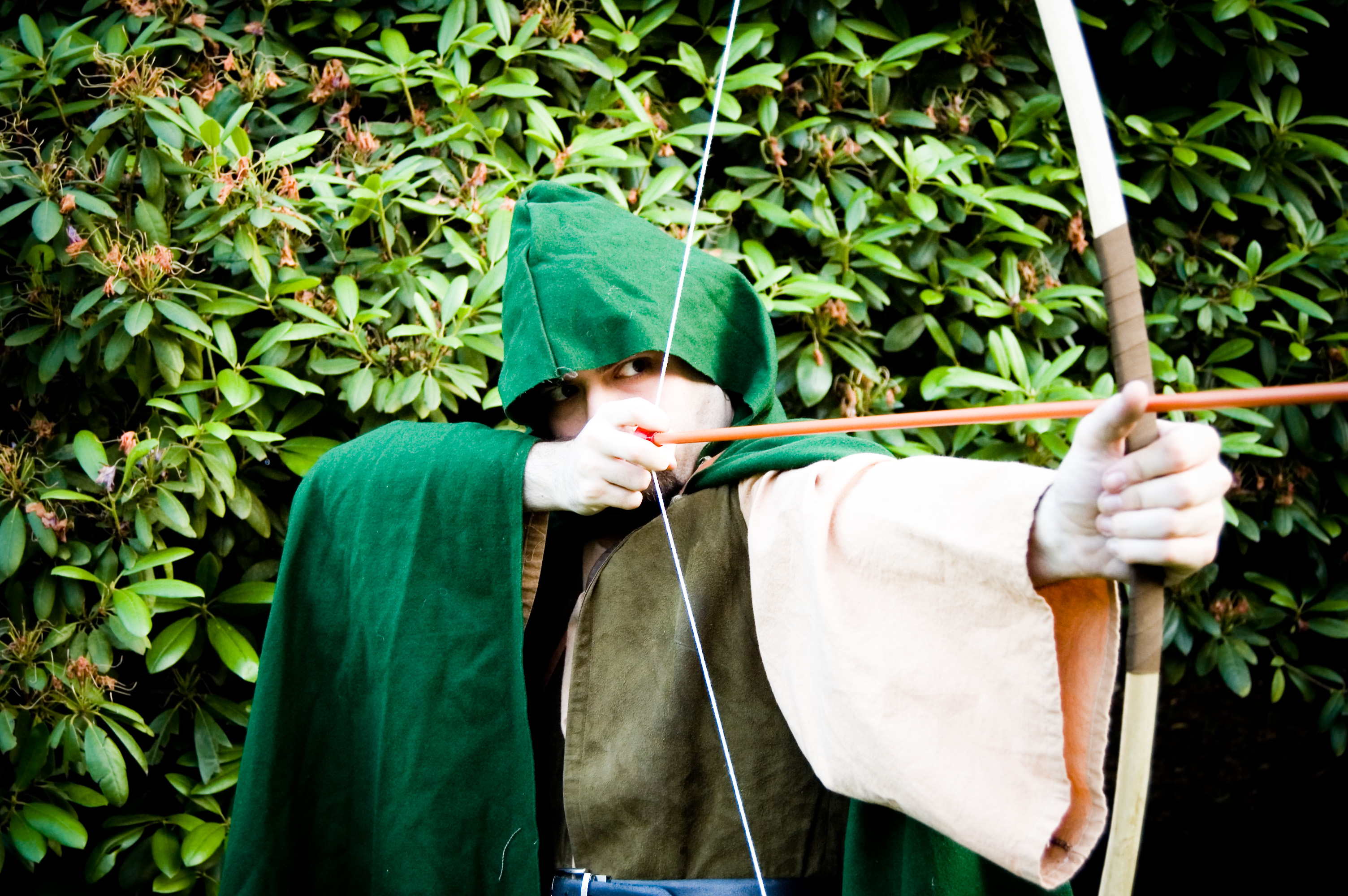 Man dressed as Robin Hood.